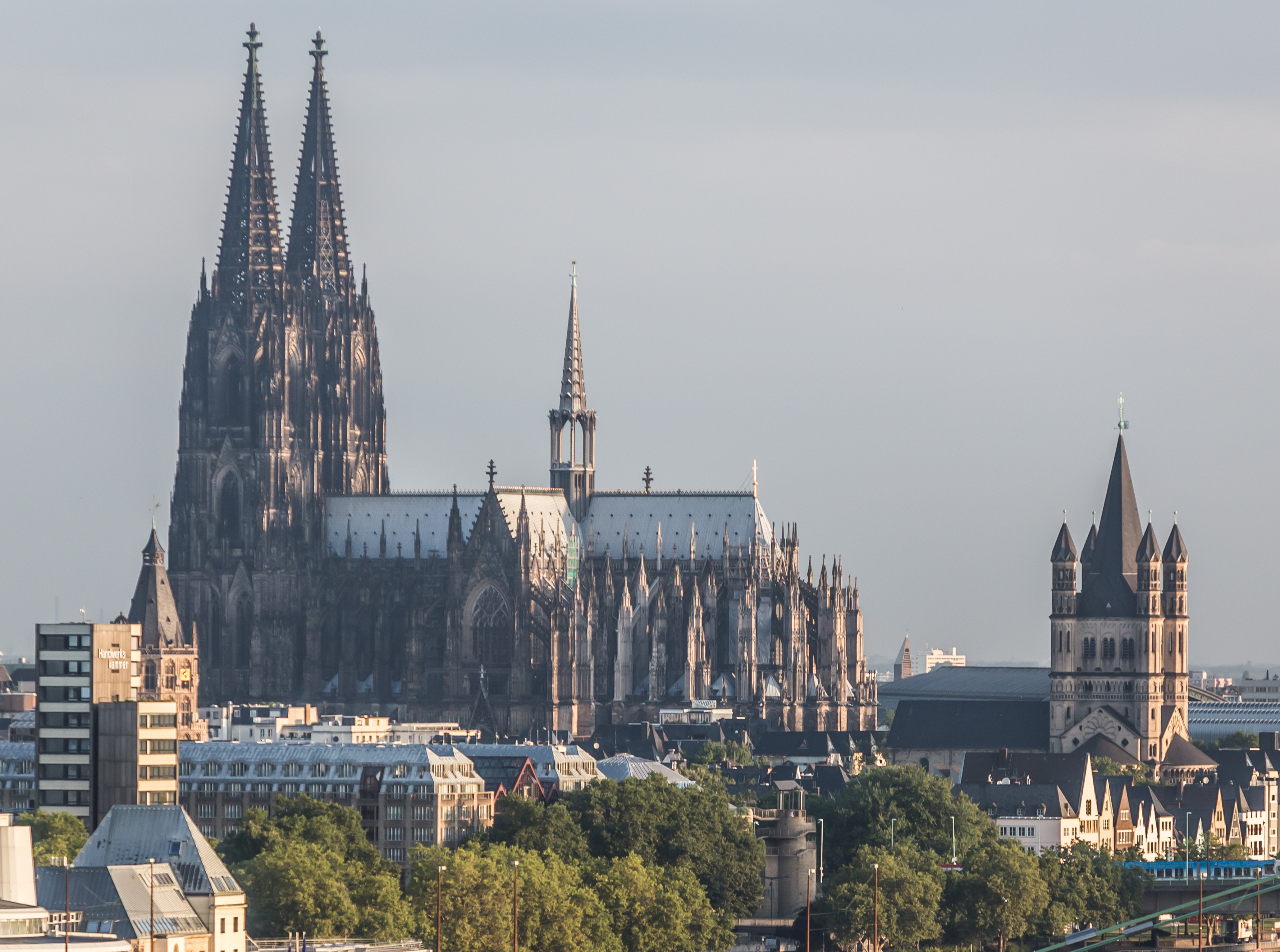 Hot air balloon trip across Cologne